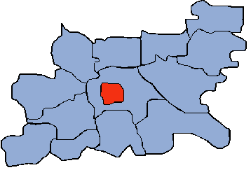 Location of Siedlce (city) commune on the map of Siedlce county